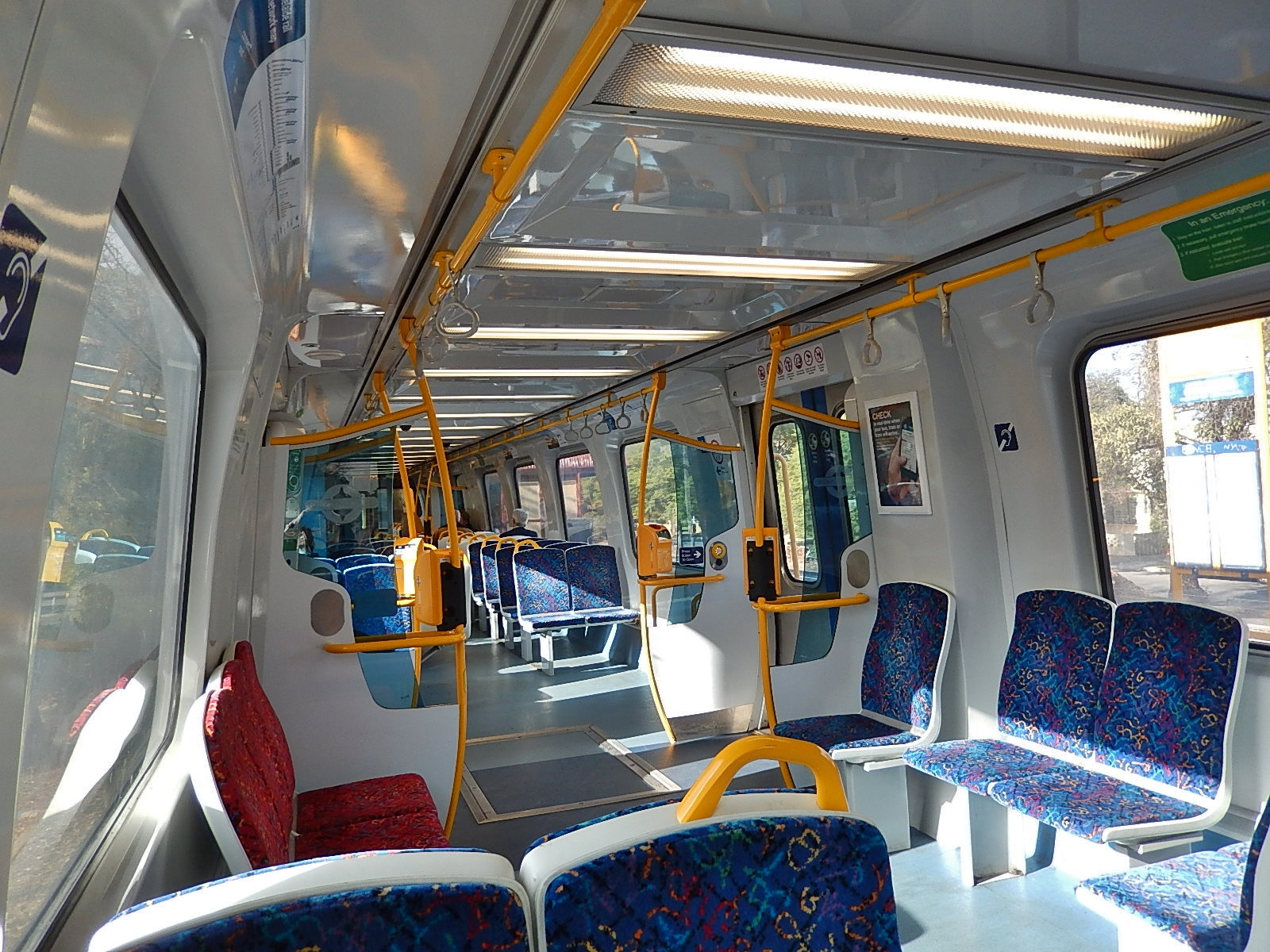 Interior of a 3000 Class DMU.